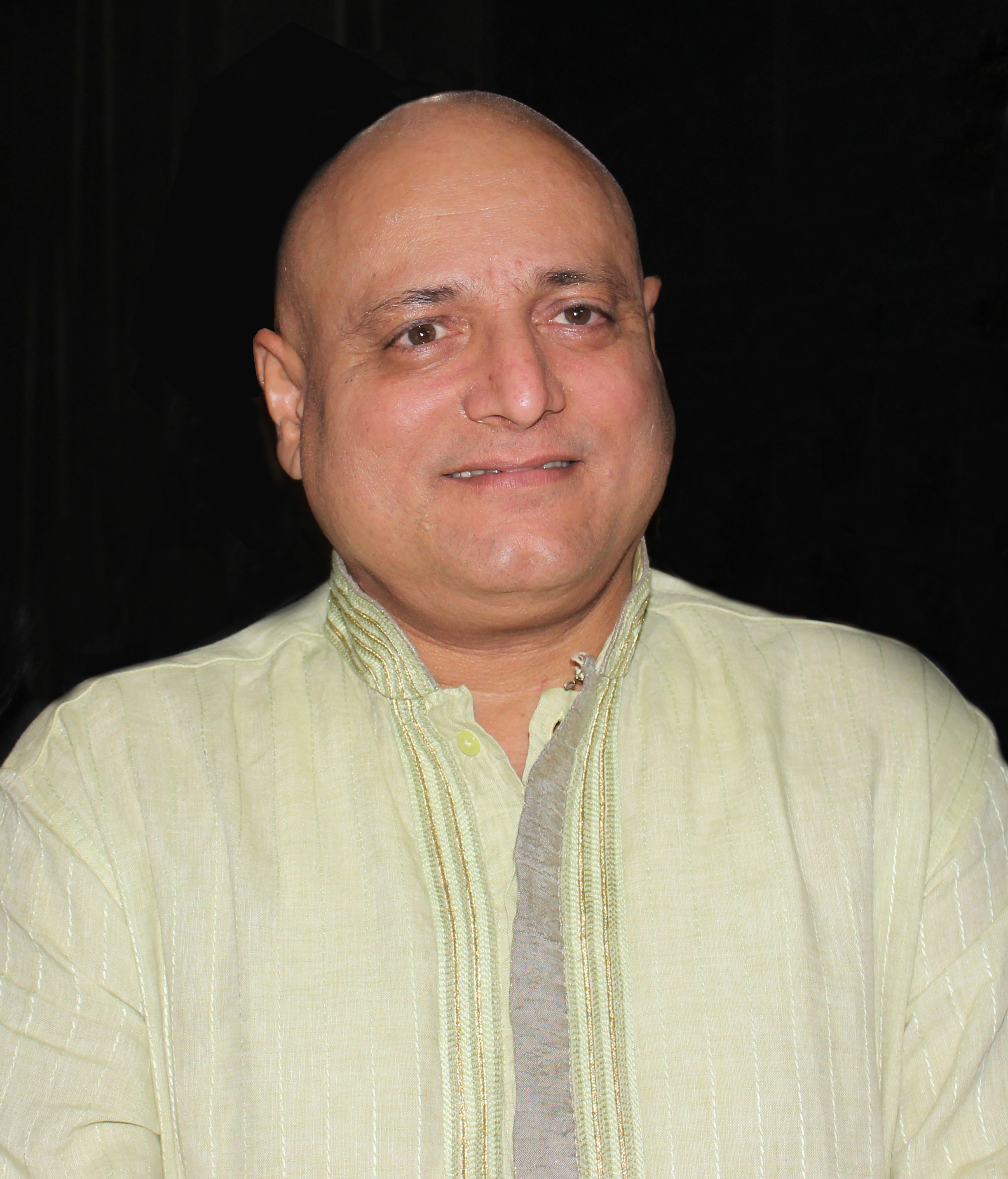 At Ravindra Bhavan Bhopal for Chankya - Play Photo Supported by Prakhar Dwivedi